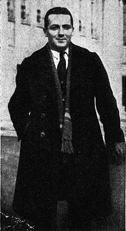 Photograph of Frank Steketee